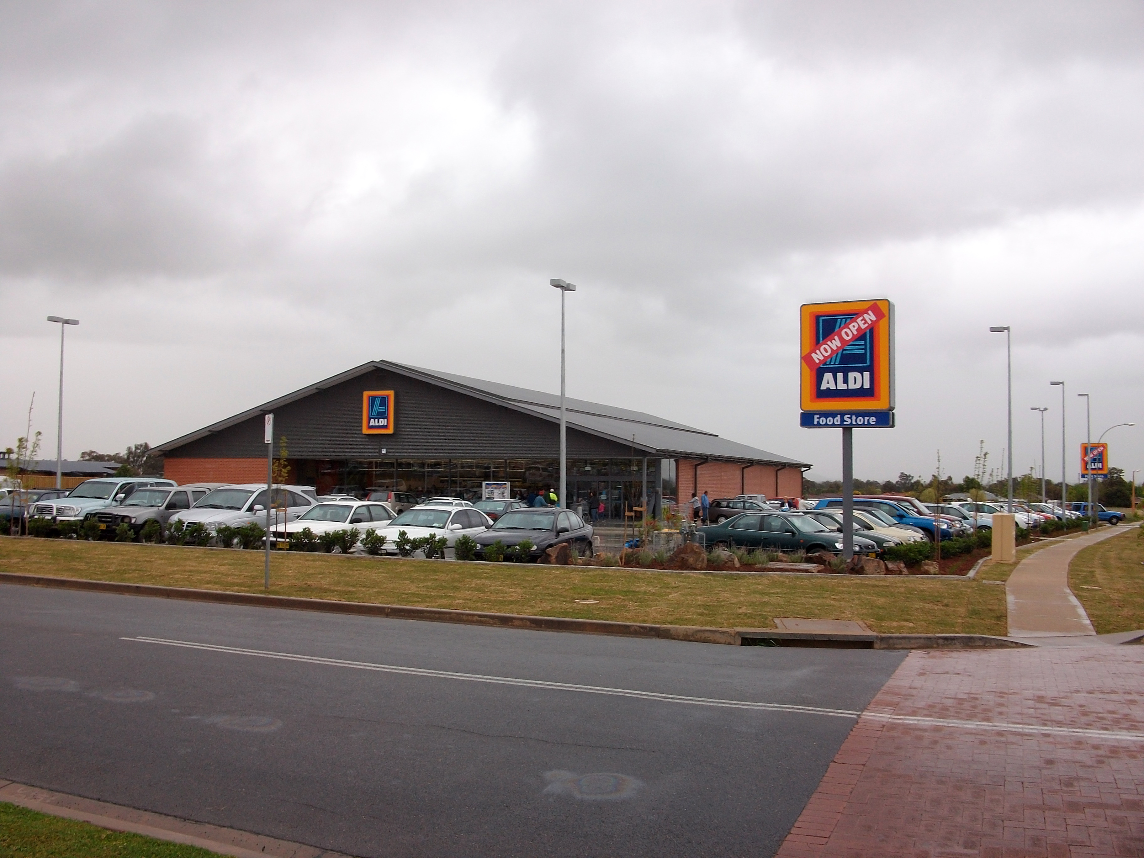 ALDI Food Store located in the Wagga Wagga suburb of Glenfield Park in New South Wales, Australia.